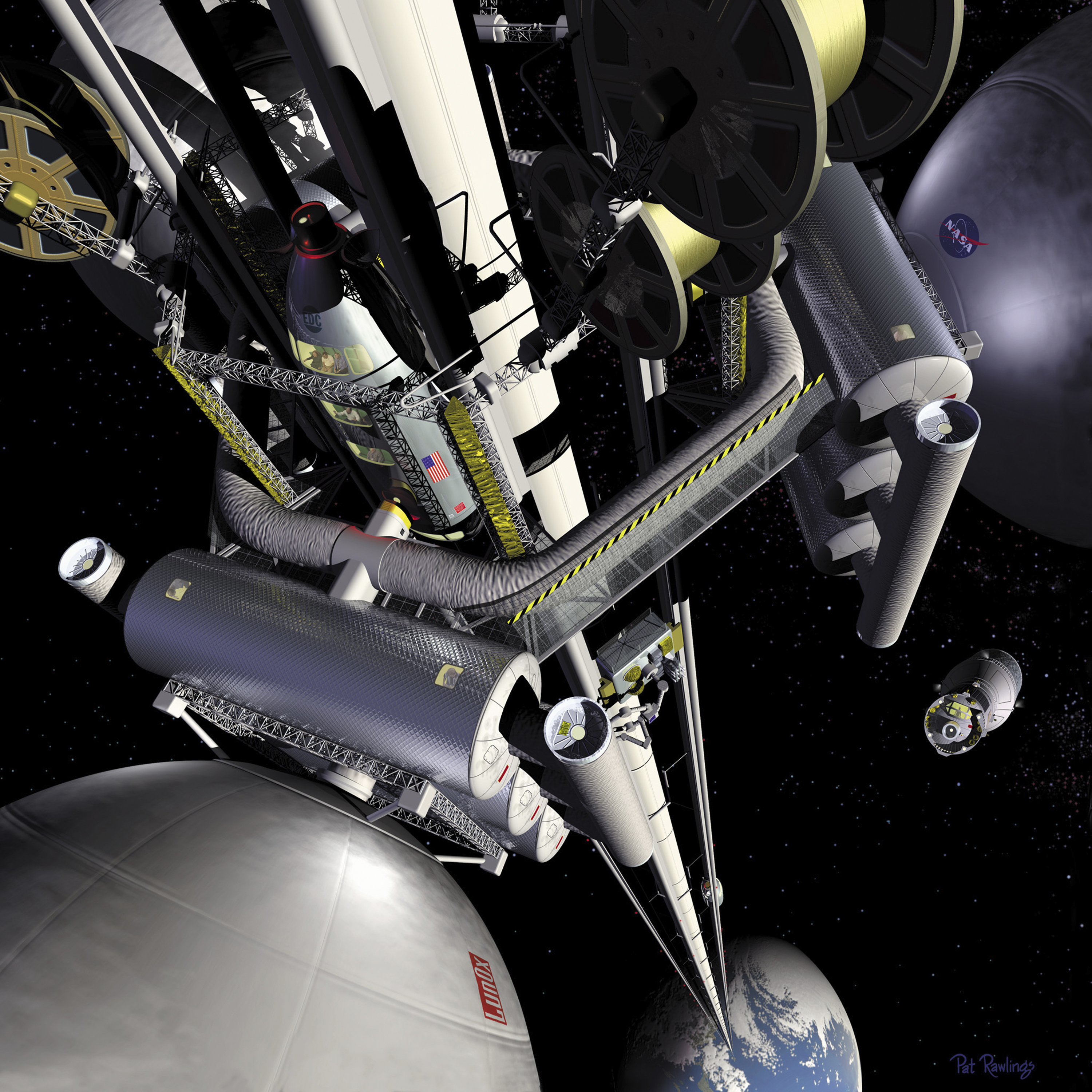 Artist concept: Space Elevator. The 'once upon a time' science fiction concept of a space elevator has been envisioned and studied as a real mass transportation system in the latter part of the 20th century. David Smitherman of NASA's Marshall Space Flight Center's Advanced Projects Office has compiled plans for such an elevator. The space elevator concept is a structure extending from the surface of the Earth to geostationary Earth orbit (GEO) at 35,786 km in altitude. The tower would be approximately 50 km tall with a cable tethered to the top. Its center mass would be at GEO such that the entire structure orbits the Earth in sync with the Earth's rotation maintaining a stationary position over its base attachment at the equator. Electromagnetic vehicles traveling along the cable could serve as a mass transportation system for transporting people, payloads, and power between space and Earth. This illustration by artist Pat Rawlings shows the concept of a space elevator as viewed from the geostationary transfer station looking down the length of the elevator towards the Earth.